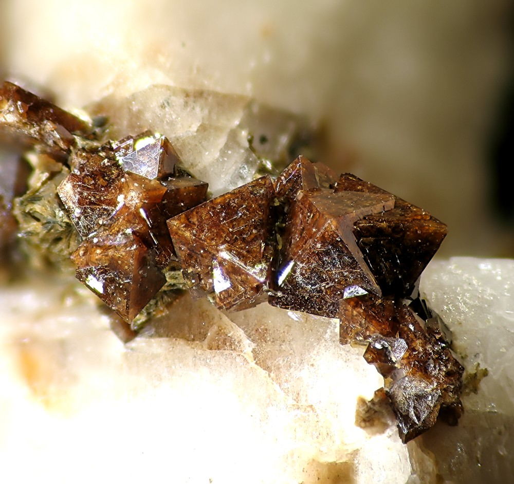 Pyrochlore Locality: Mt Malosa, Zomba District, Malawi (Locality at ) Picture width 4 mm. Collection and photograph Christian Rewitzer